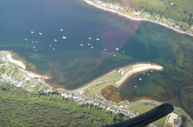 Lochranza from the air This photo was taken from a helicopter on our honeymoon. I love the patterns under the water to the right of the photo (the pink area is the reflection of my shirt!). (I know there are a lot of pernickety geographers out there, so I ask you not to start a great debate about whether the photographer was 'in the square', whether the photo is the air equivalent of 'all at sea' - I simply want to share this wonderful view, and others, with the rest of you!)